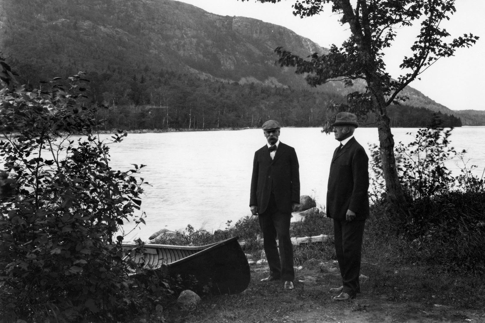 George B. Dorr and Charles W. Eliot on the shore of Jordan Pond in Acadia National Park, Maine, United States.